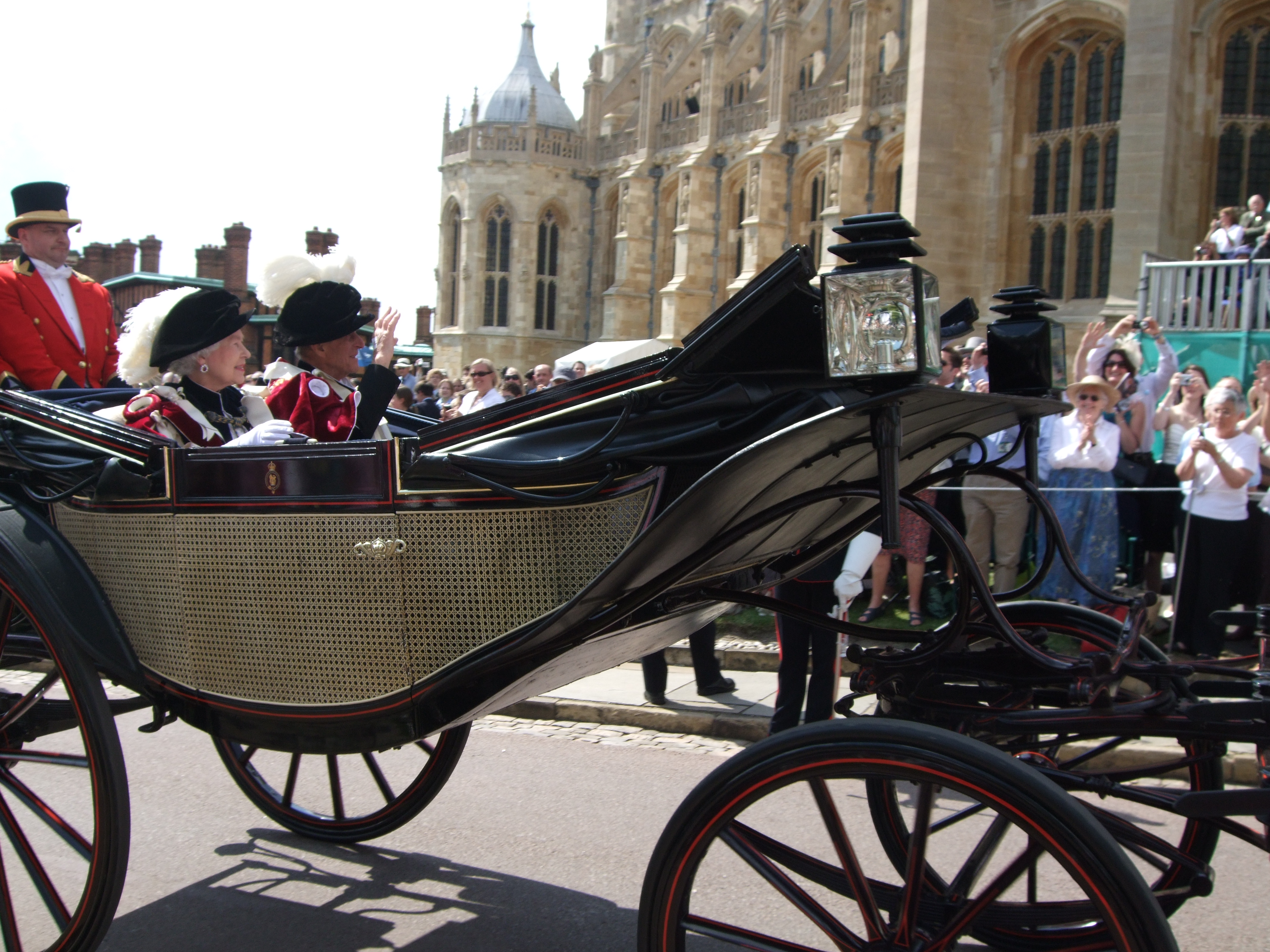 The Queen leaves St. George's Chapel